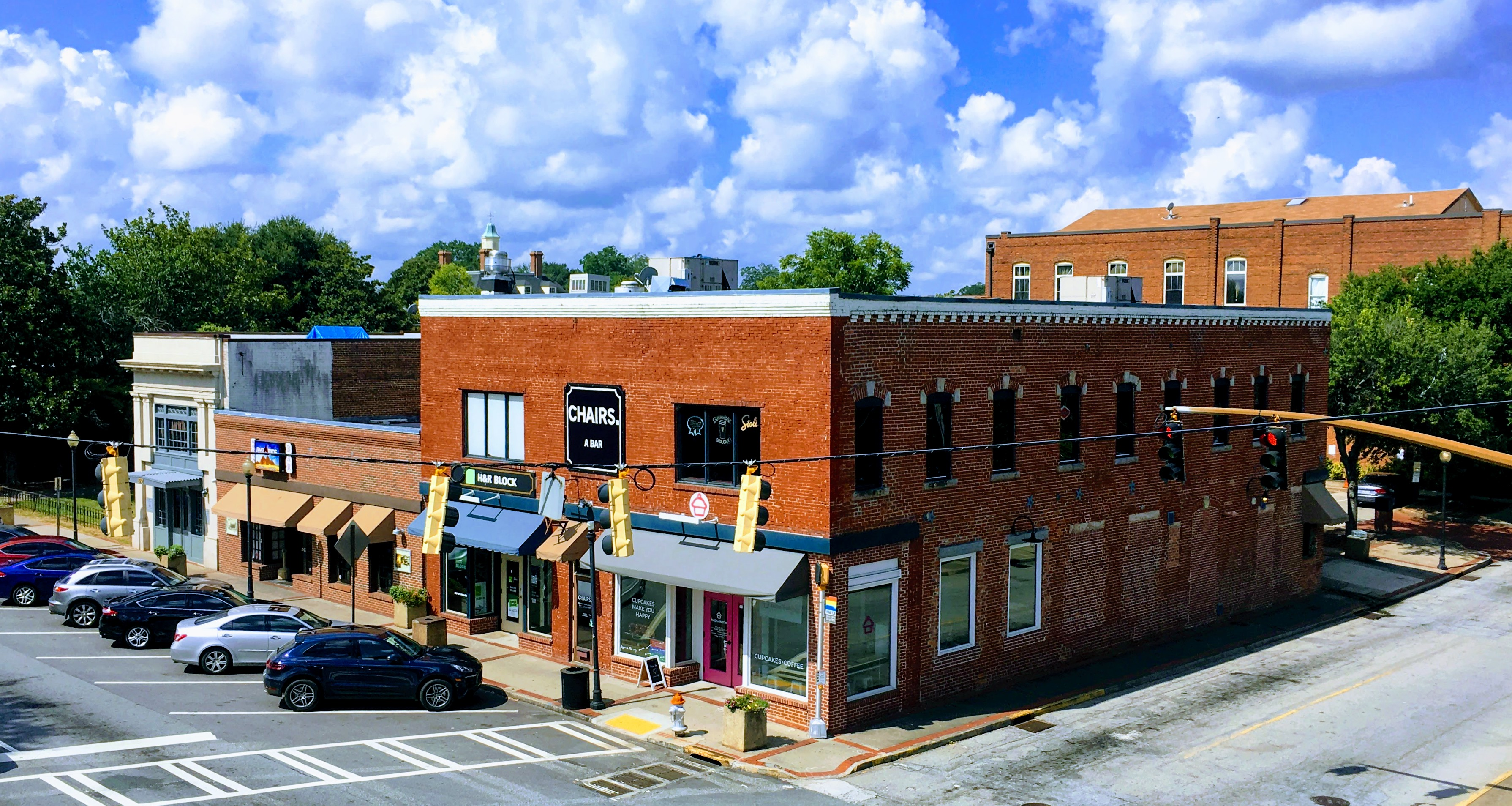 Downtown East Point Georgia